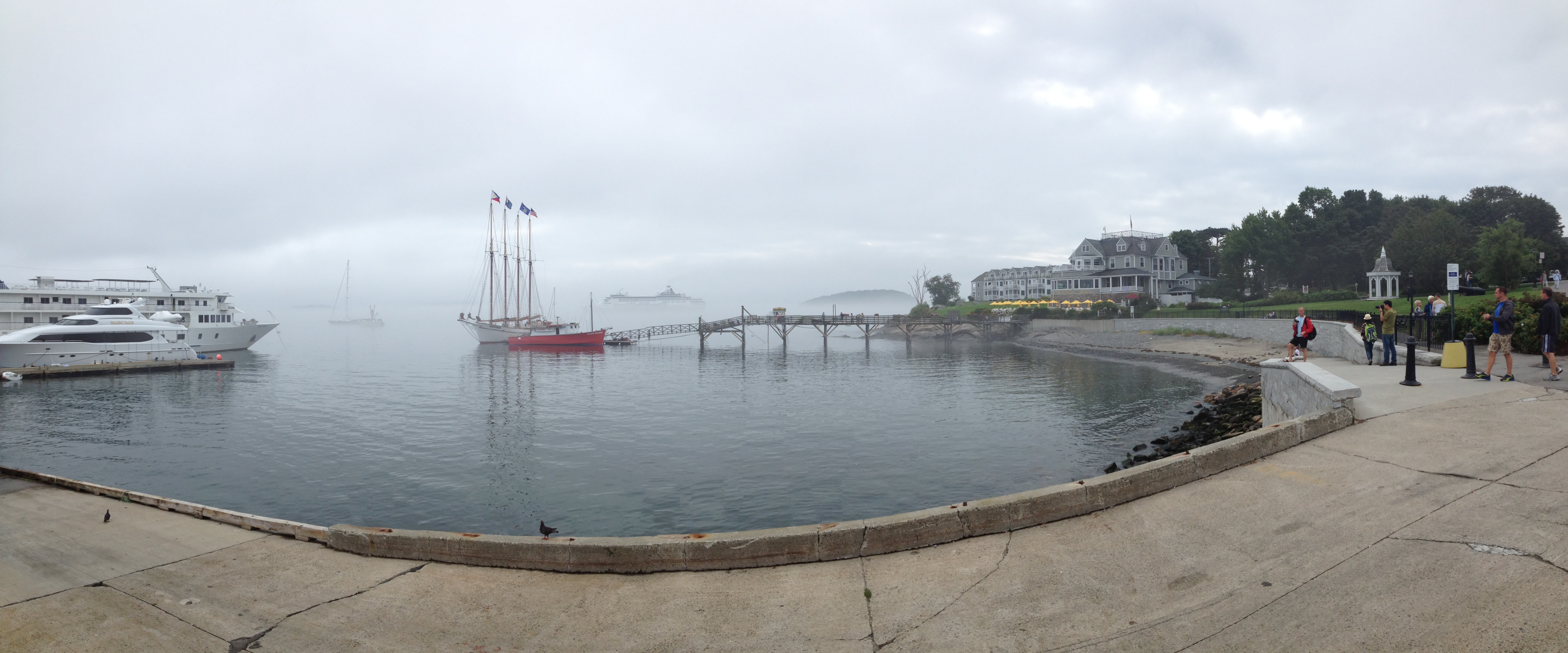 Maggie Todd, Bar Harbor, September 2013